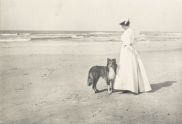 On the Beach